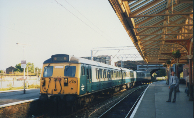 A Class 304 Electric Multiple Unit, seen at Altrincham in 1990.